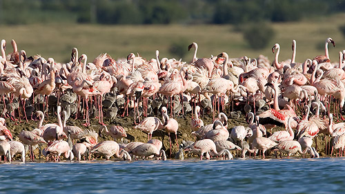 Part of a breeding flock of Lesser Flamingos, with adults in pink and chicks in grey plumage, assembled on a specially constructed breeding island at Kamfers Dam, Kimberley, South Africa